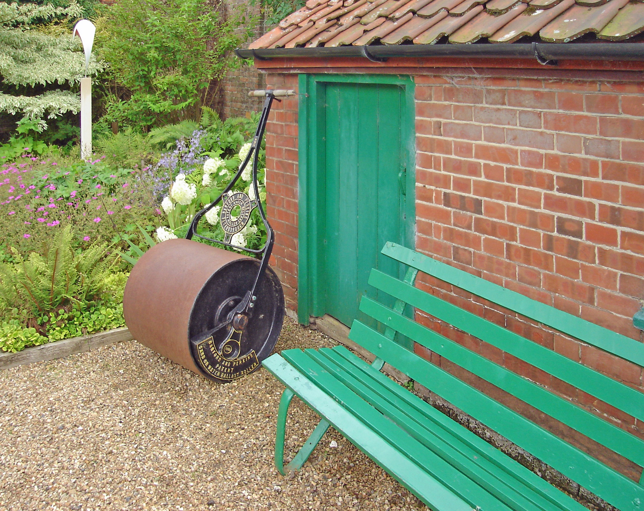 The garden roller at Hoveton Hall gardens, Hoveton, Norfolk